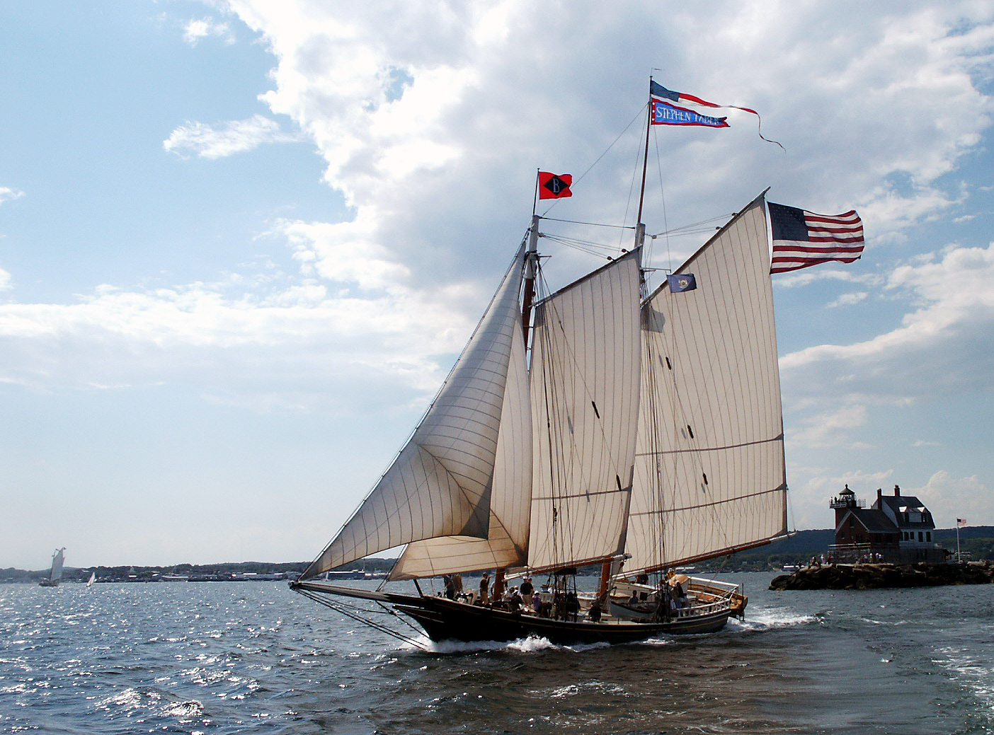 Schooner Stephen Taber during the Maine Windjammer Parade, Rockland